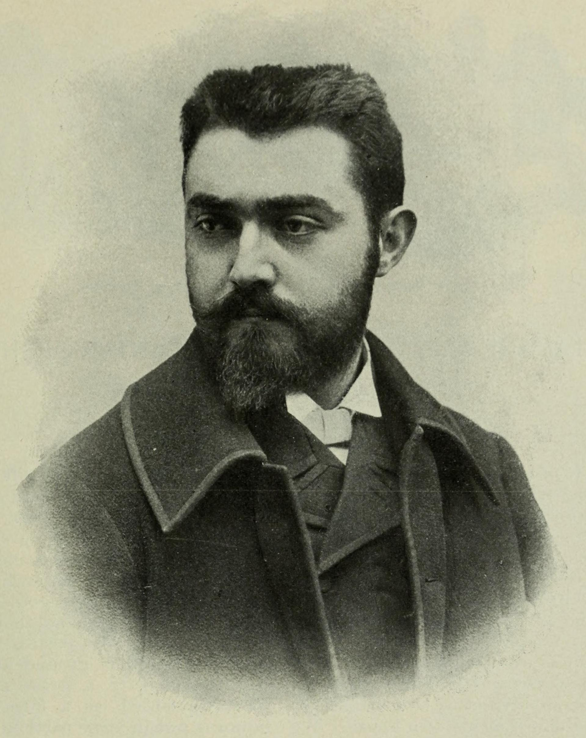 Henri Adrien Tanoux, French painter Title: Scribner's magazine Year: 1887 (1880s) Authors: Subjects: Publisher: New York : C. Scribner's Sons Text Appearing Before Image: enceof the new impressionist school is verymanifest, particularly in the endeavorto combine color and hght, which re-sults in a ci*udity very difficult to avoid.There is, however, no trace of this cini-dity in his portraits, which are, as a i*ule,both quiet in color and paiuted withgreat teclmical sanity and sobriety, asif the artist had no other aim than todo justice to his subject without paus-ing to consider whether his technicalmethods were according to recent fash-ions or traditional and so liable to becondemned as obsolete by the newestlittle coterie in critici.sm. The por-traits are of the most opposite charac-ter, and perhaps the reader will seefrom the variety in The Three NVaifs *that the painter can observe great dif-ferences in people who may be placedin exactly the same situation and be-long to the same class or to no class.There is often in portrait-painters astrong tendency to specialty as to so-cial rank. We all know the aristocraticpainter who makes it his business to Text Appearing After Image: Adrien Henri Tanoux. give an air of higli breeding to his sit-ters, and of late we have become ac-quainted with the democratic portrait-painter who professes to exhibit themiddle-class citizen as he is. M. Tan-oux does not appear to have any pref-erences of this kind. If the sitter is an officer and a gentleman he will be reflected in that character on thecanvas ; if he is not more fashionablethan The Three Waifs, M. Tanouxwill certainly not disdain him, but willfind something interesting in him as heis and not miss what is essential in hisnature by lending a refinement thatdoes not really belong to him.